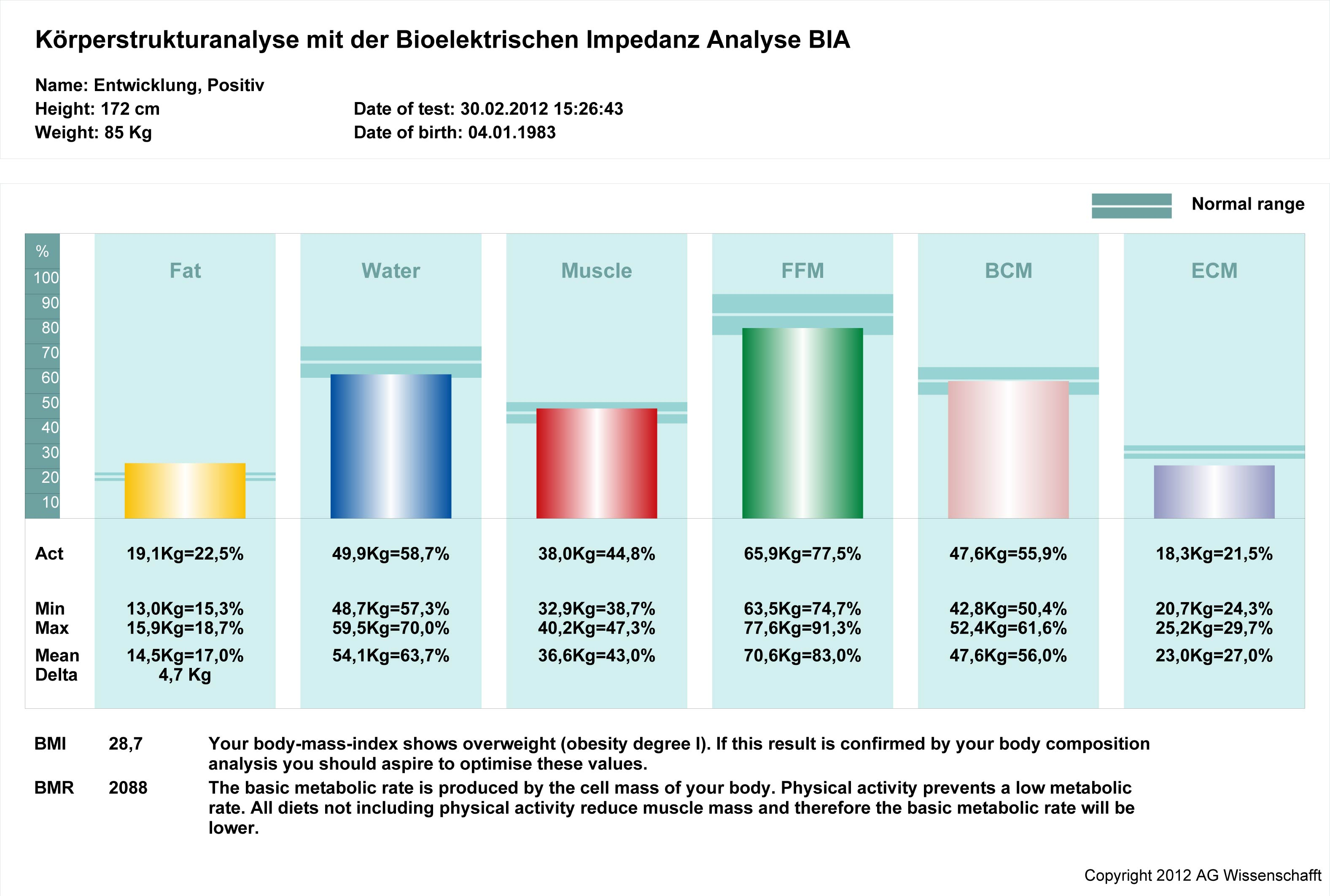 BIA Bioelectrical Impedance Analysis: Printout